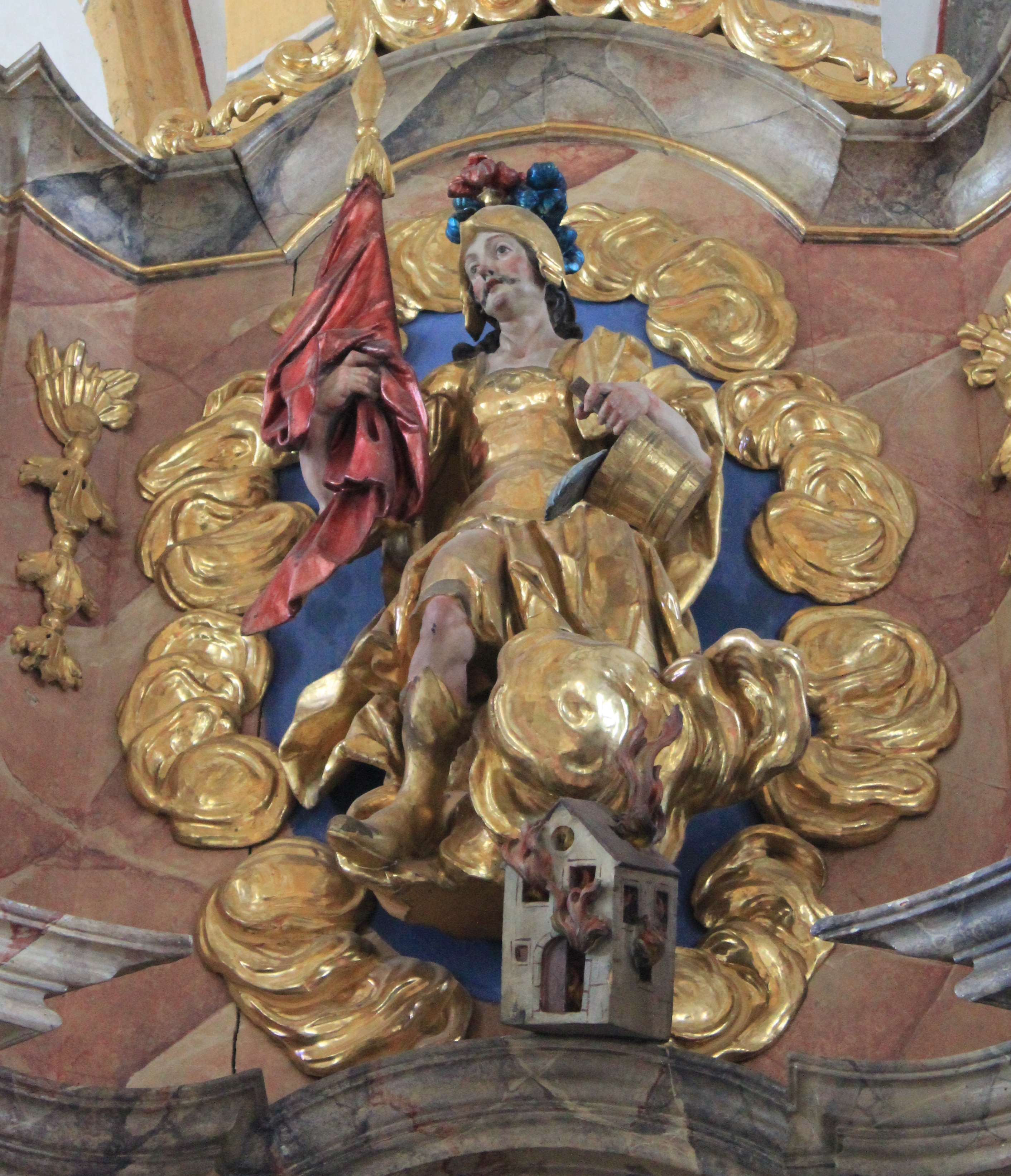 Parish church in Bleiburg - side altar - Saint Florian